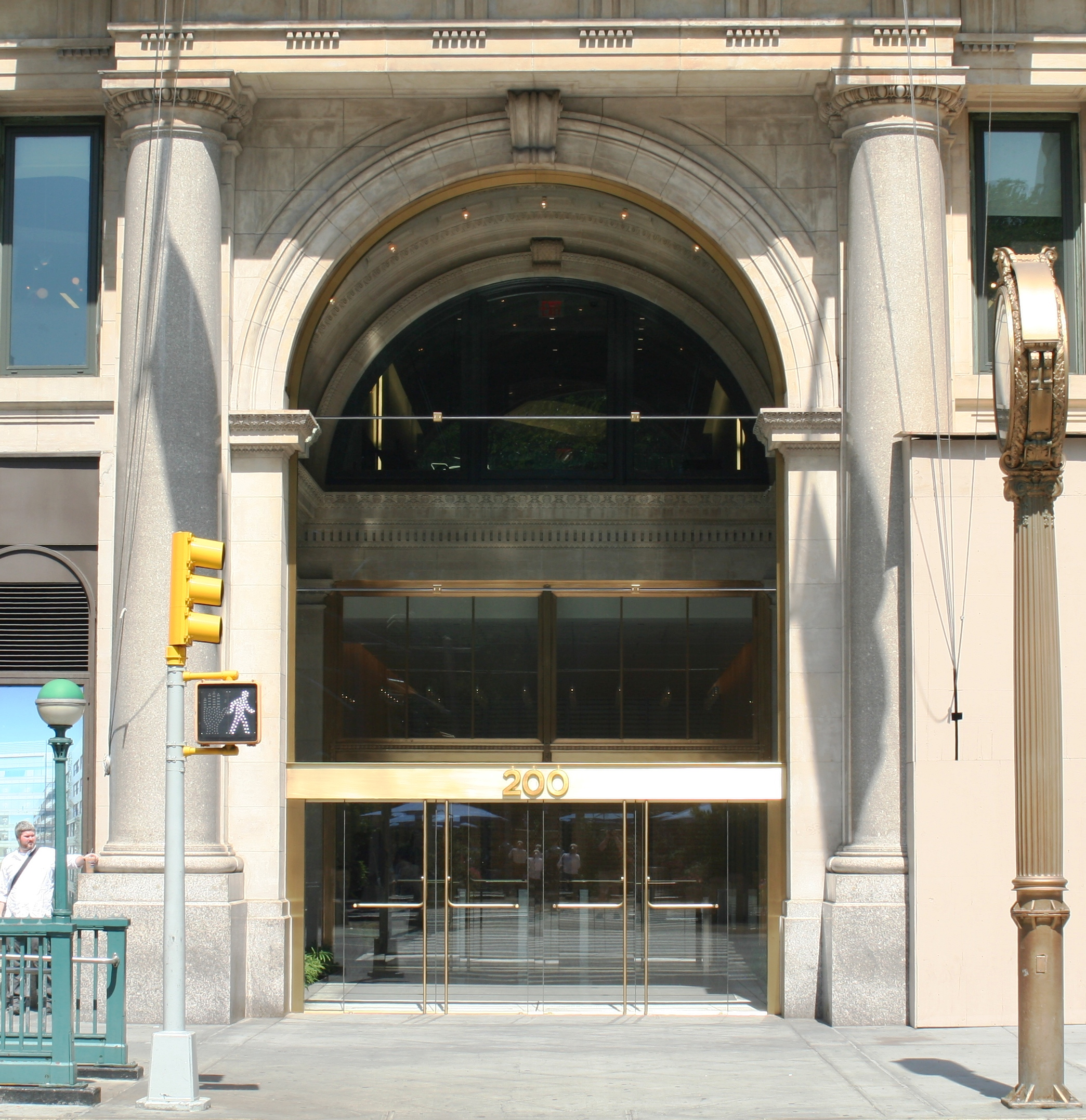 The main entrance to 200 Fifth Avenue, Manhattan, New York City. The build used to be the "Toy Center South"